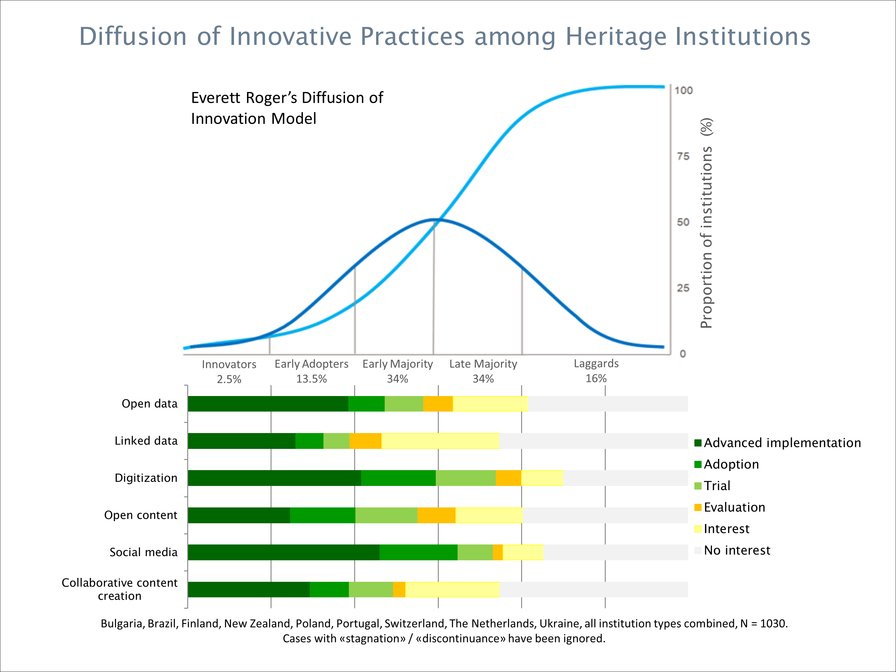 OpenGLAM Benchmark Survey; Innovation Diffusion Model regarding various Internet-related practices; based on data from Finland, Poland, Switzerland, The Netherlands, Portugal, Bulgaria, New Zealand, Ukraine, and Brazil gathered between December 2014 and January 2016.